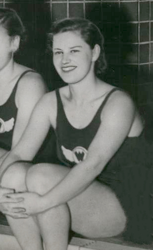 1936 Press Photo Washington relay team Olive McKean, Betty Lea, Jack Medica